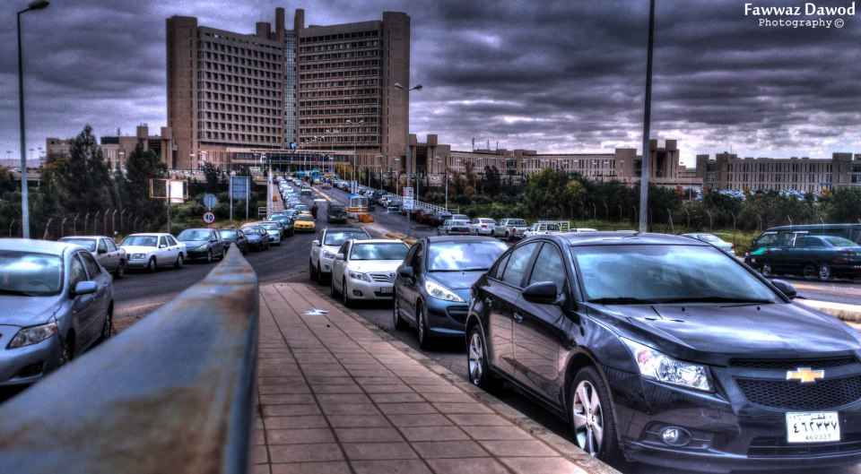 King Abdallah University Hospital